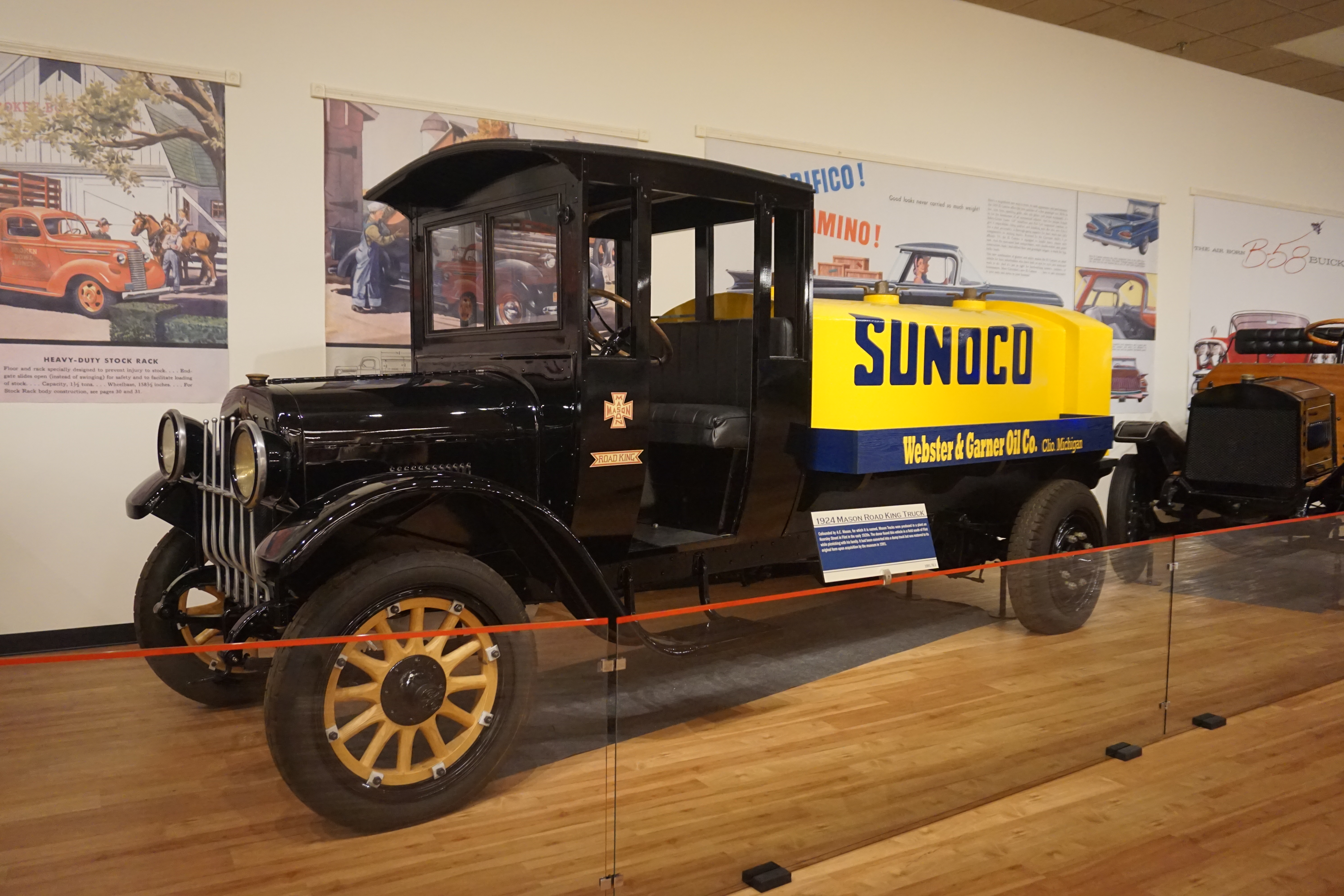 A 1924 Mason Road King truck at the Sloan Museum at Courtland Center in Burton, Michigan (United States).